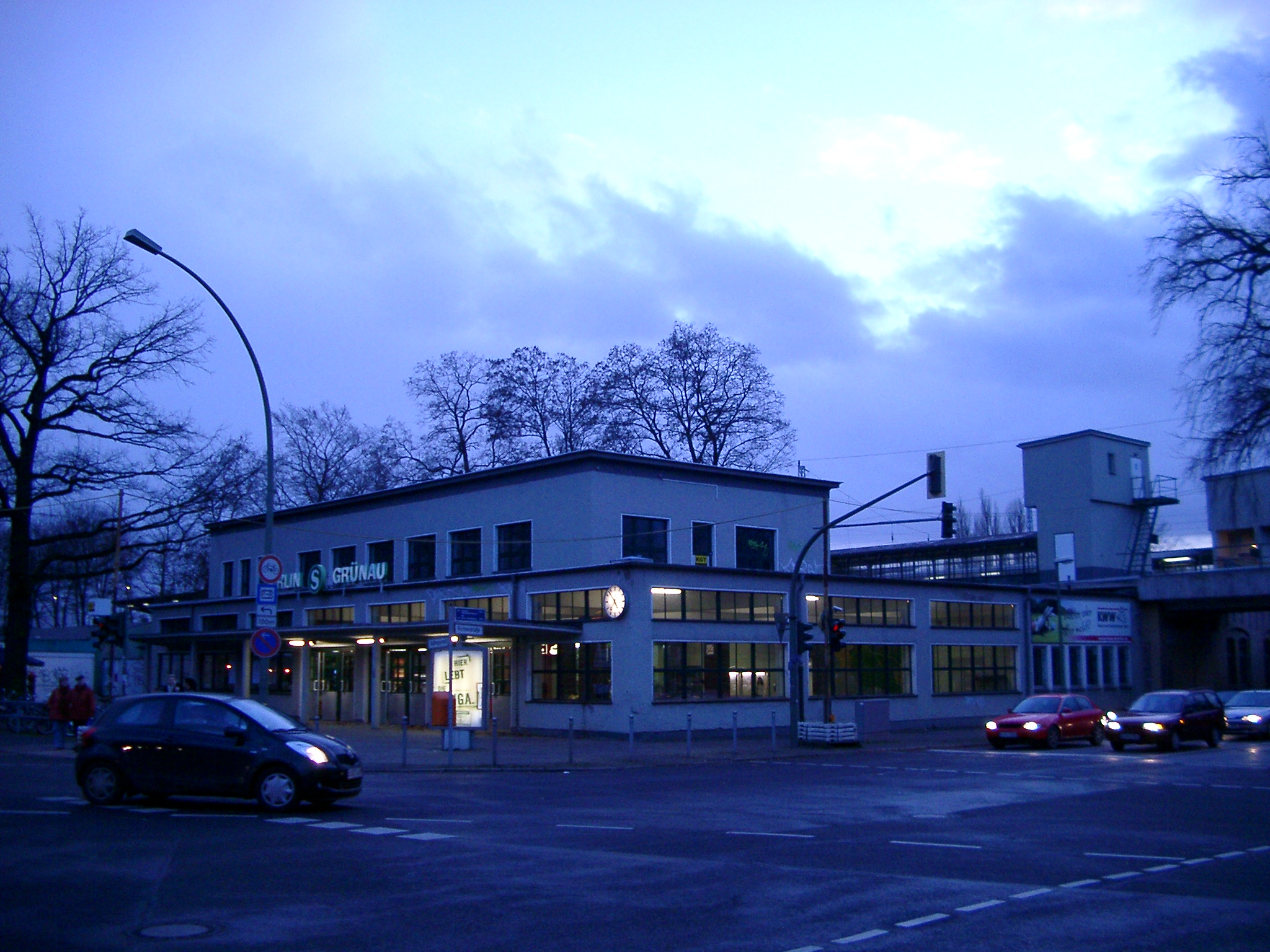 The Berlin S-Bahn train station in Grünau, Treptow-Köpenick, Berlin.